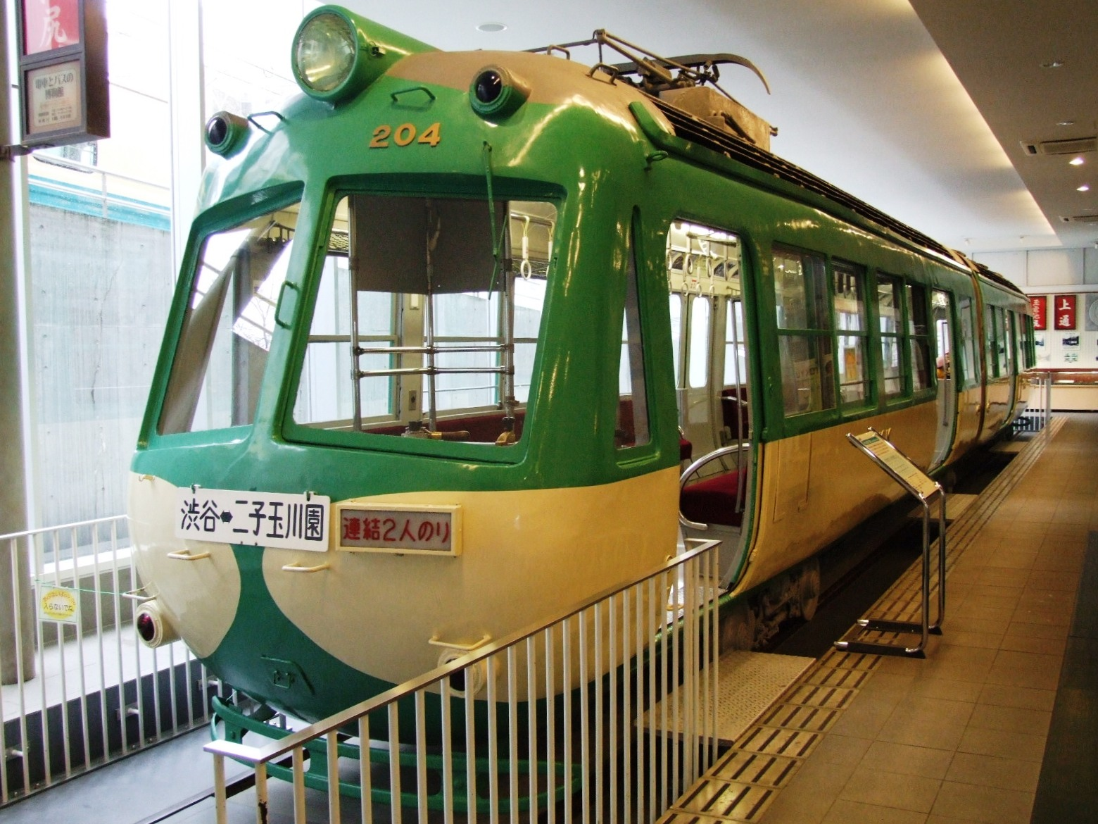 Series 200,Tokyo Kyuko Kabushikigaisha,Japan